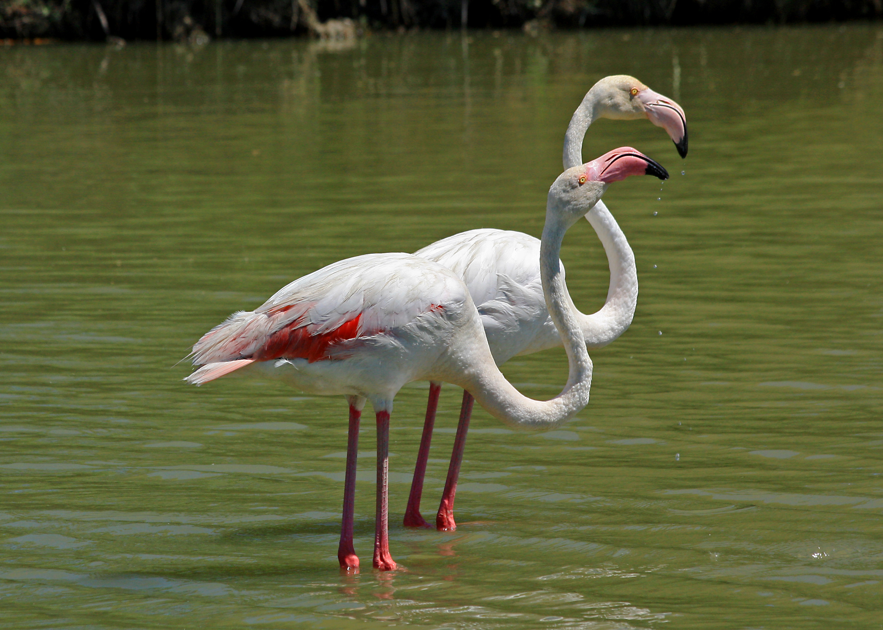 Greater Flamingo Phoenicopterus roseus in the Camargue, France